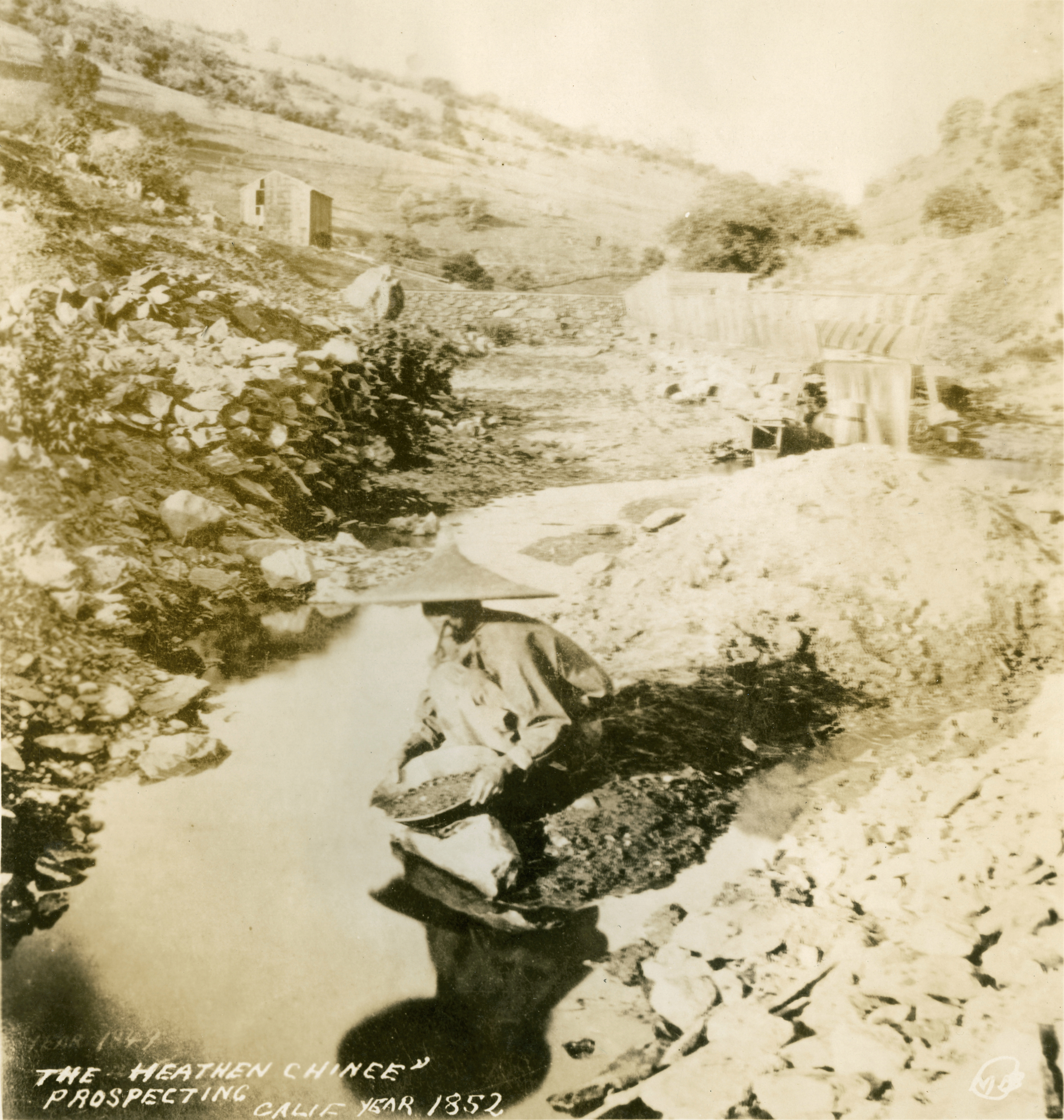 Chinese miner panning for gold in California in 1852. The photo is captioned "The Heathen Chinee Prospecting Calif. Year 1852", an early example of discrimination faced by Chinese miners during the gold rush.